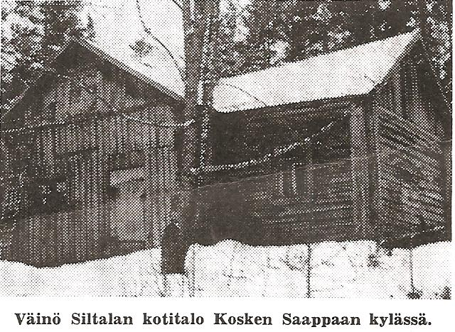 Saappaan kylän kotitalo.